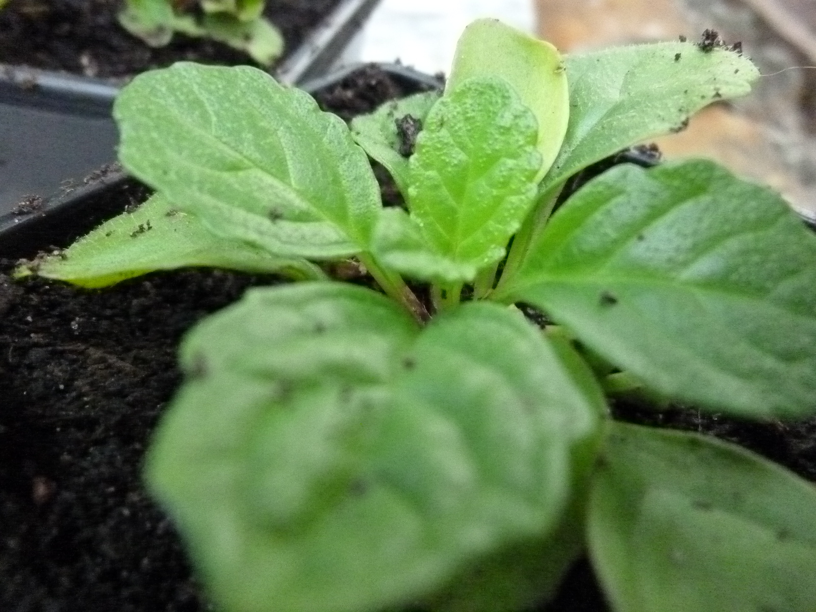 From plug